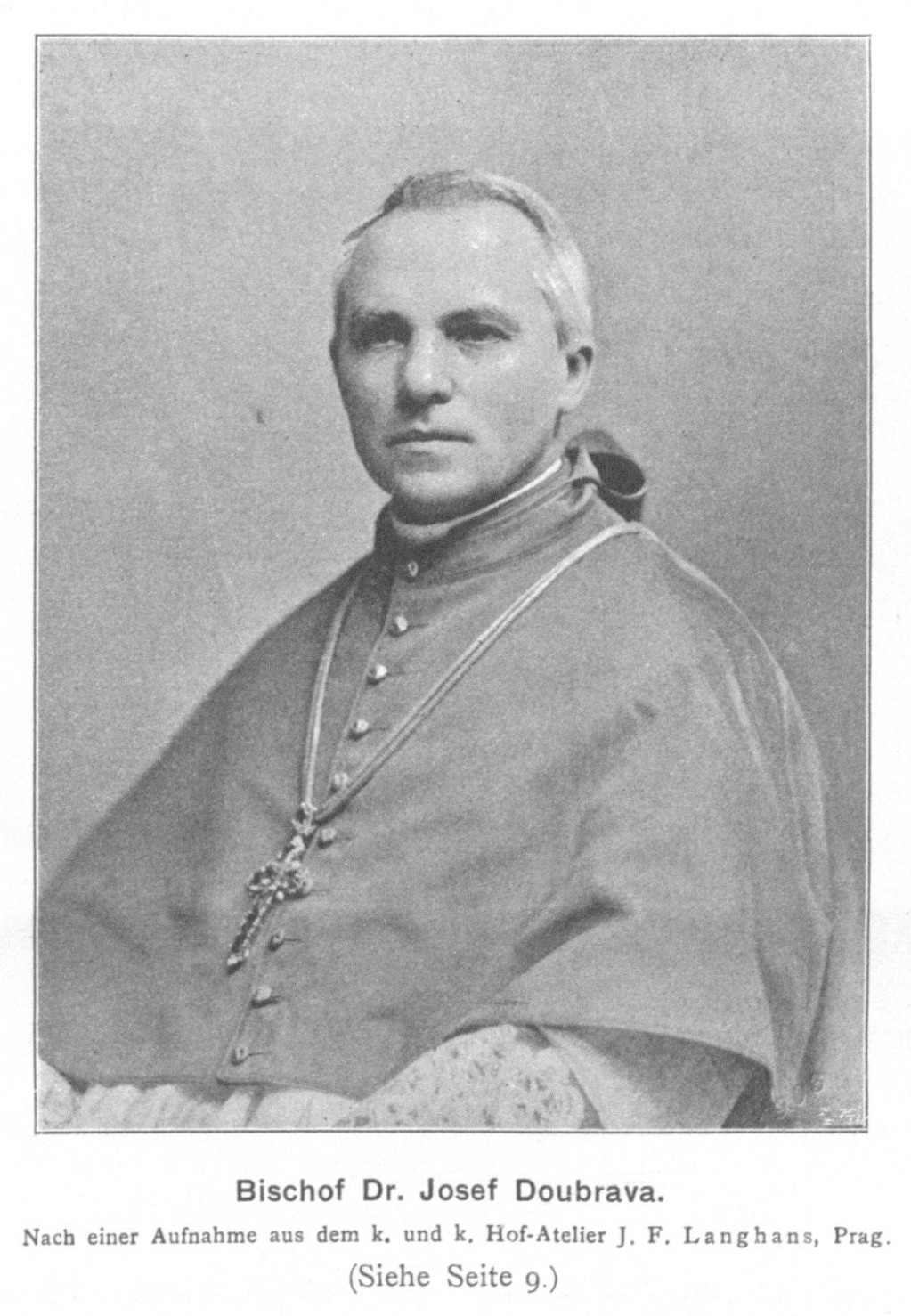 Portrait of Josef Doubrava (1852-1921), Roman-Catholic bishop of Hradec Králové.